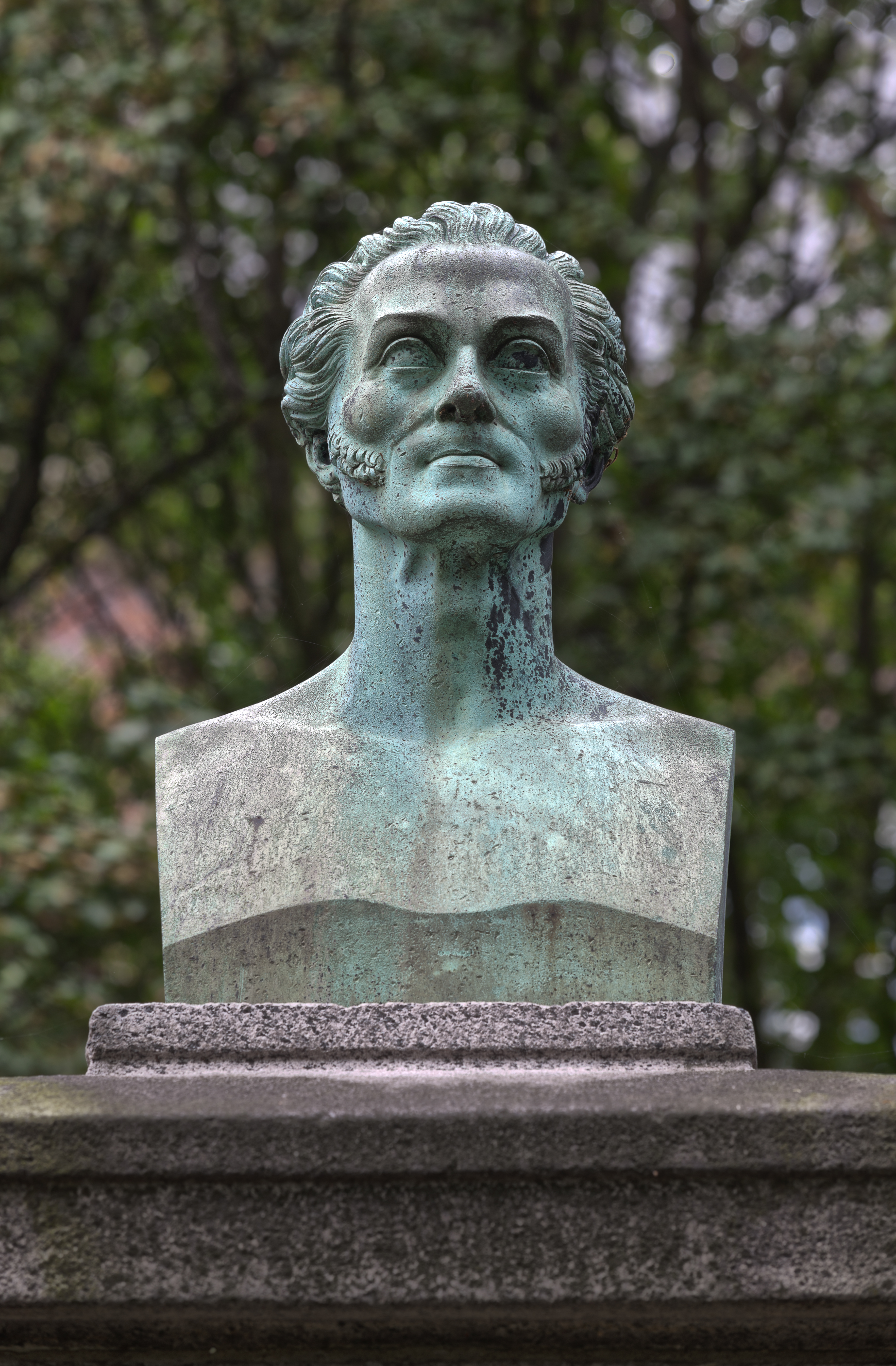 Bust of Johann Georg Repsold at the grounds of the hamburgmuseum. This is a photograph of an architectural monument.